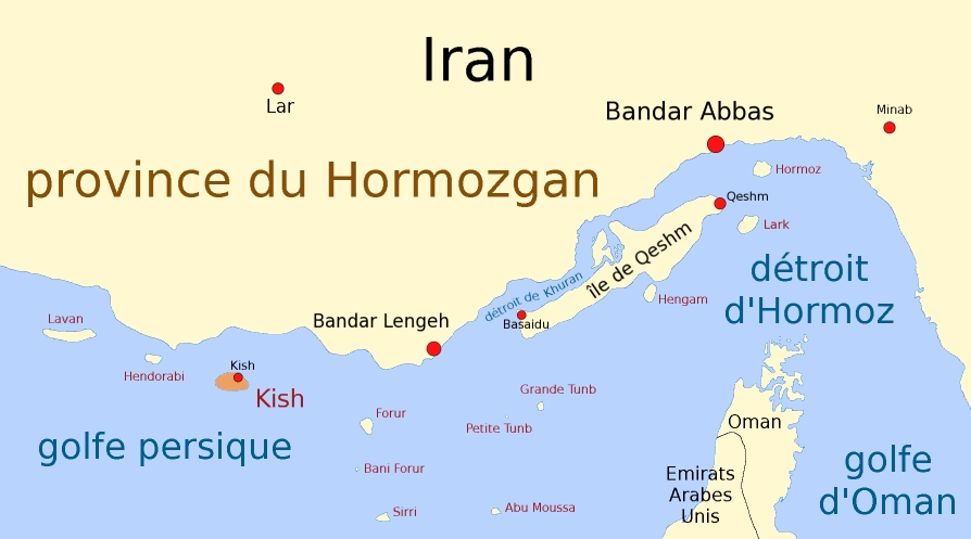 Map of Kish island, in french